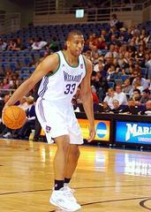 Richard Hendrix while playing for the Dakota Wizards in Bismarck, ND.